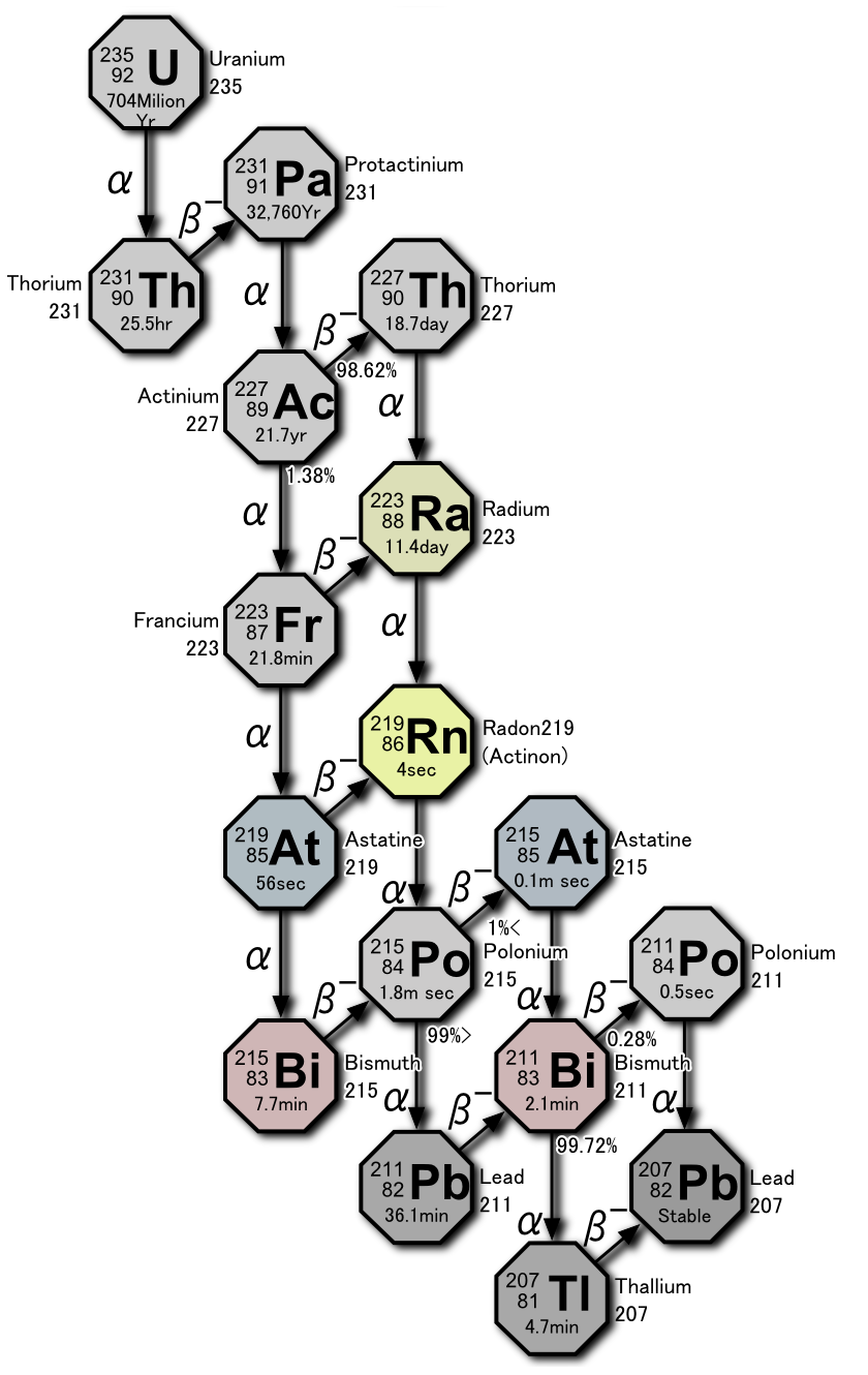 Decay chain 4n+3, Actinium series